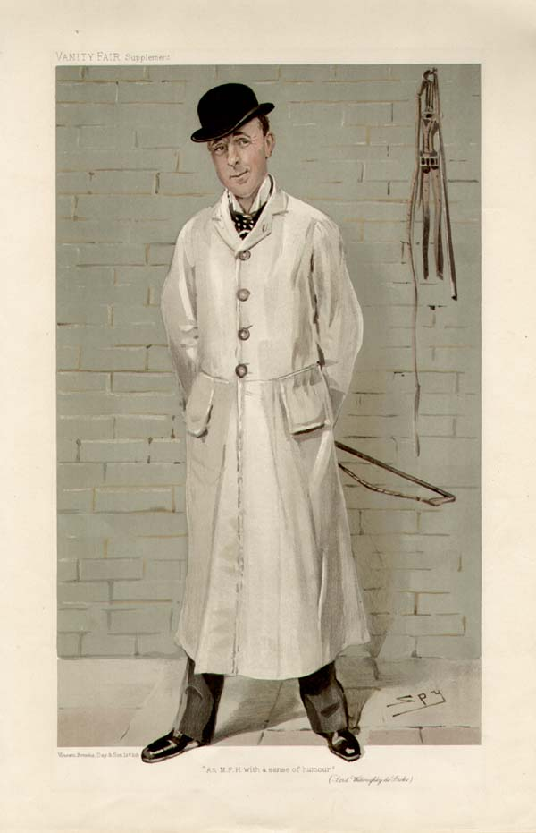 Men of the Day No.991: Caricature of Lord Willoughby de Broke. Caption reads: "An MFH with a sense of humour"